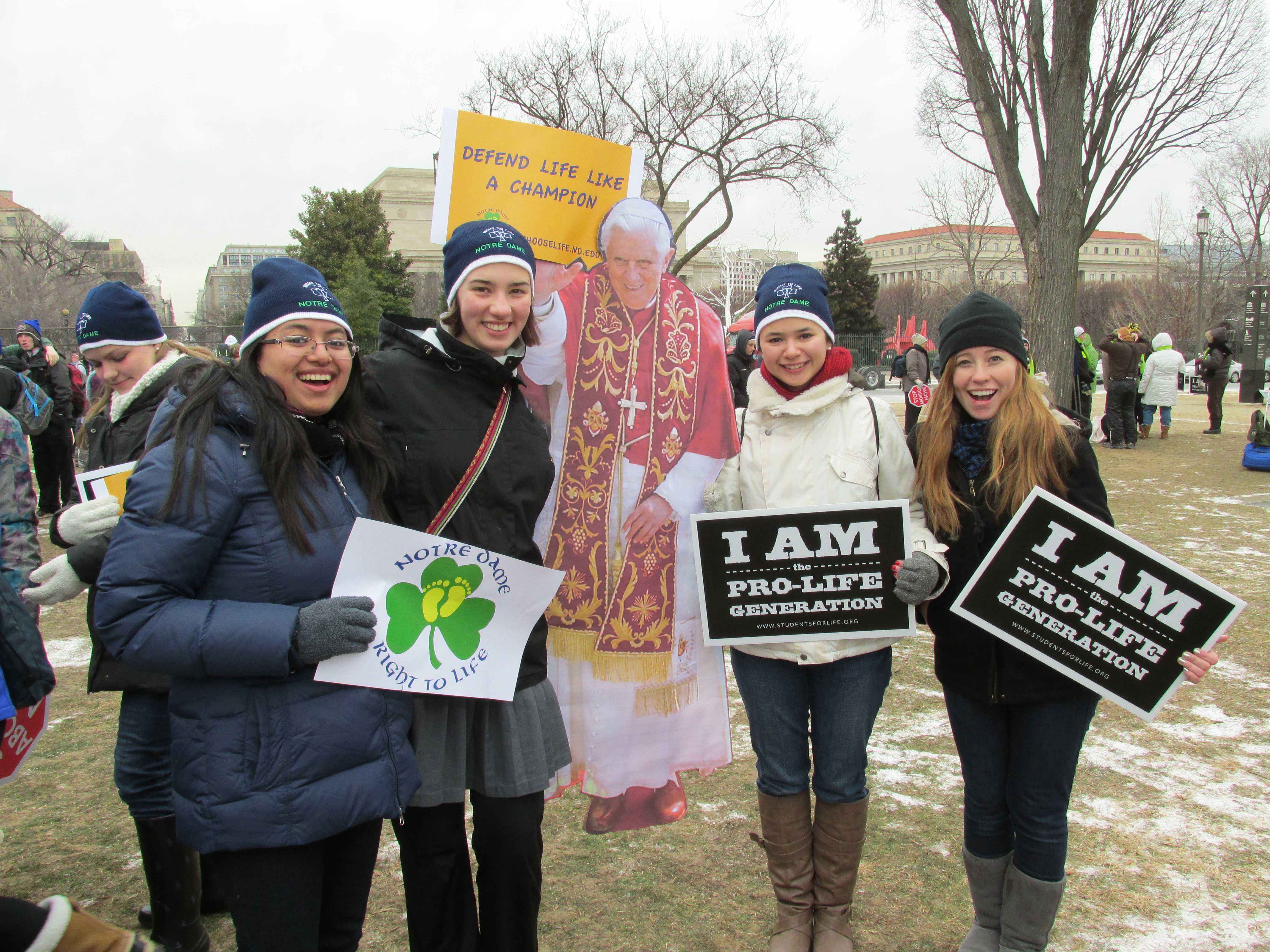 Students from the University of Notre Dame at the March for Life in Washington, D.C.. January 2013